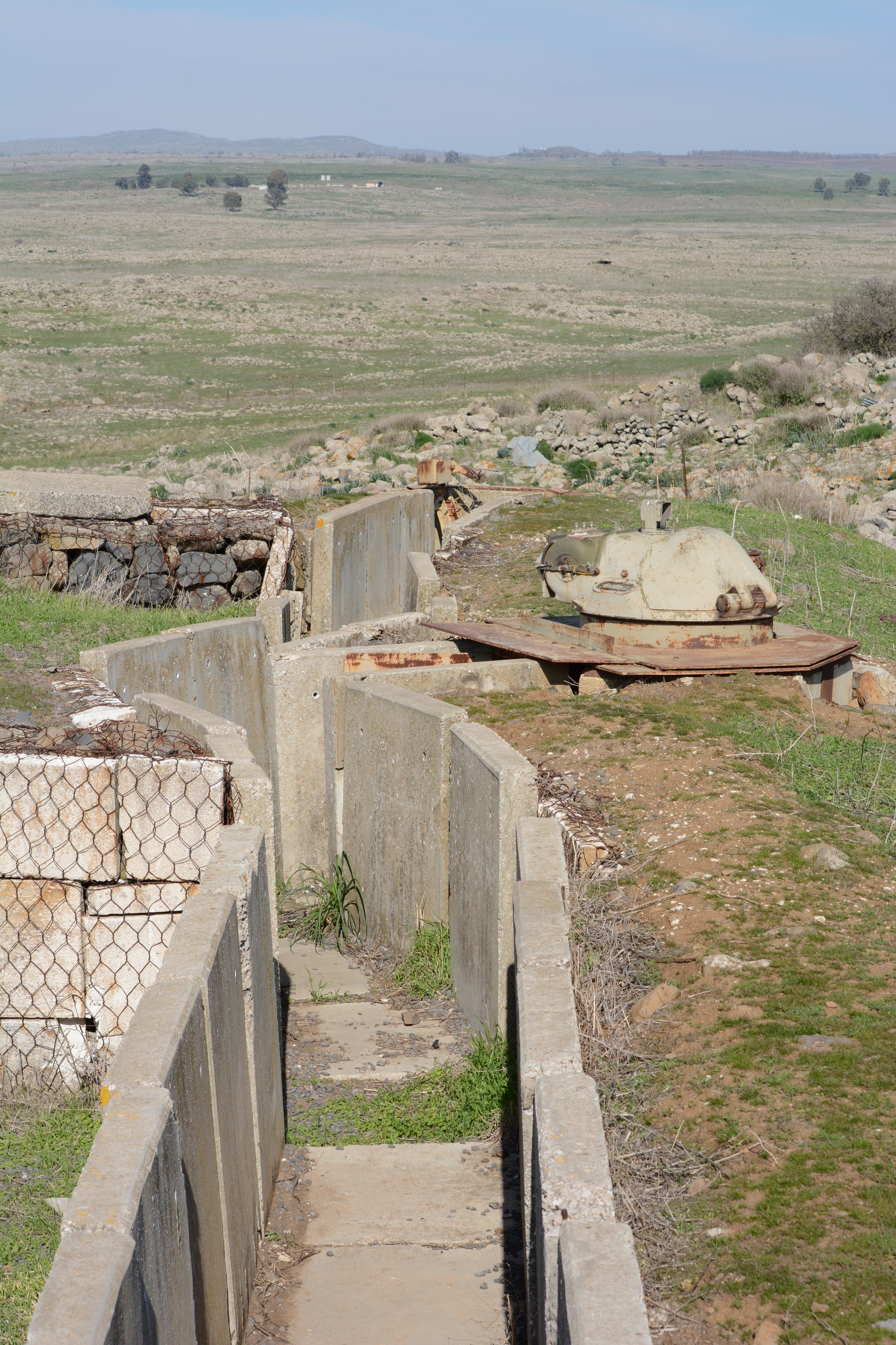 Bunkers. Golan Heights.